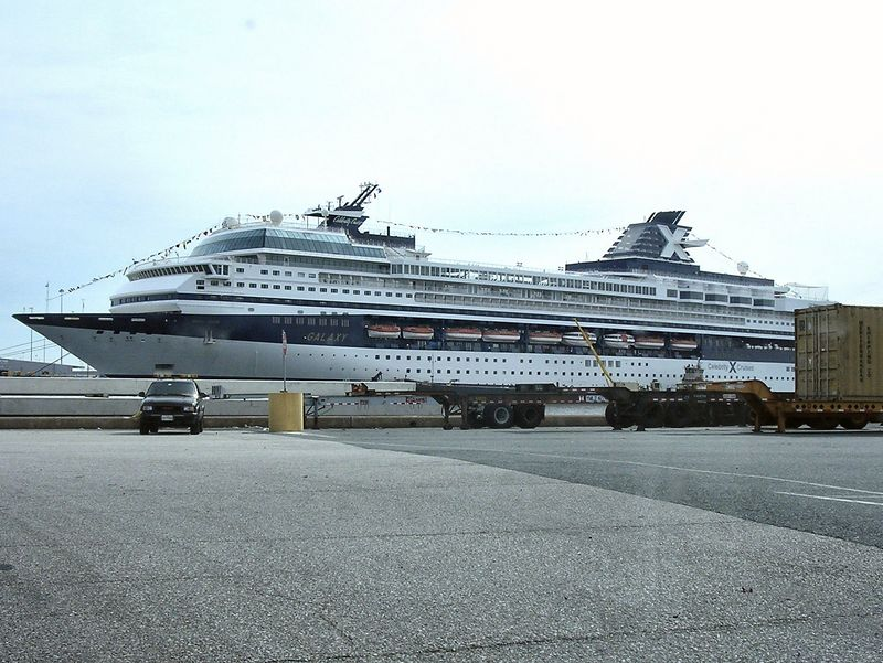 Celebrity Cruises ship MV Galaxy Information about Galaxy may be found at IMO 9106297. A ship can change her name and flag state through time, but the IMO number remains the same through the hull's entire lifetime. Therefore, it's useful to identify a ship through her IMO number.